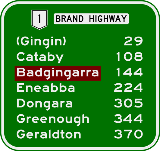 Brand Highway Route Confirmation Sign